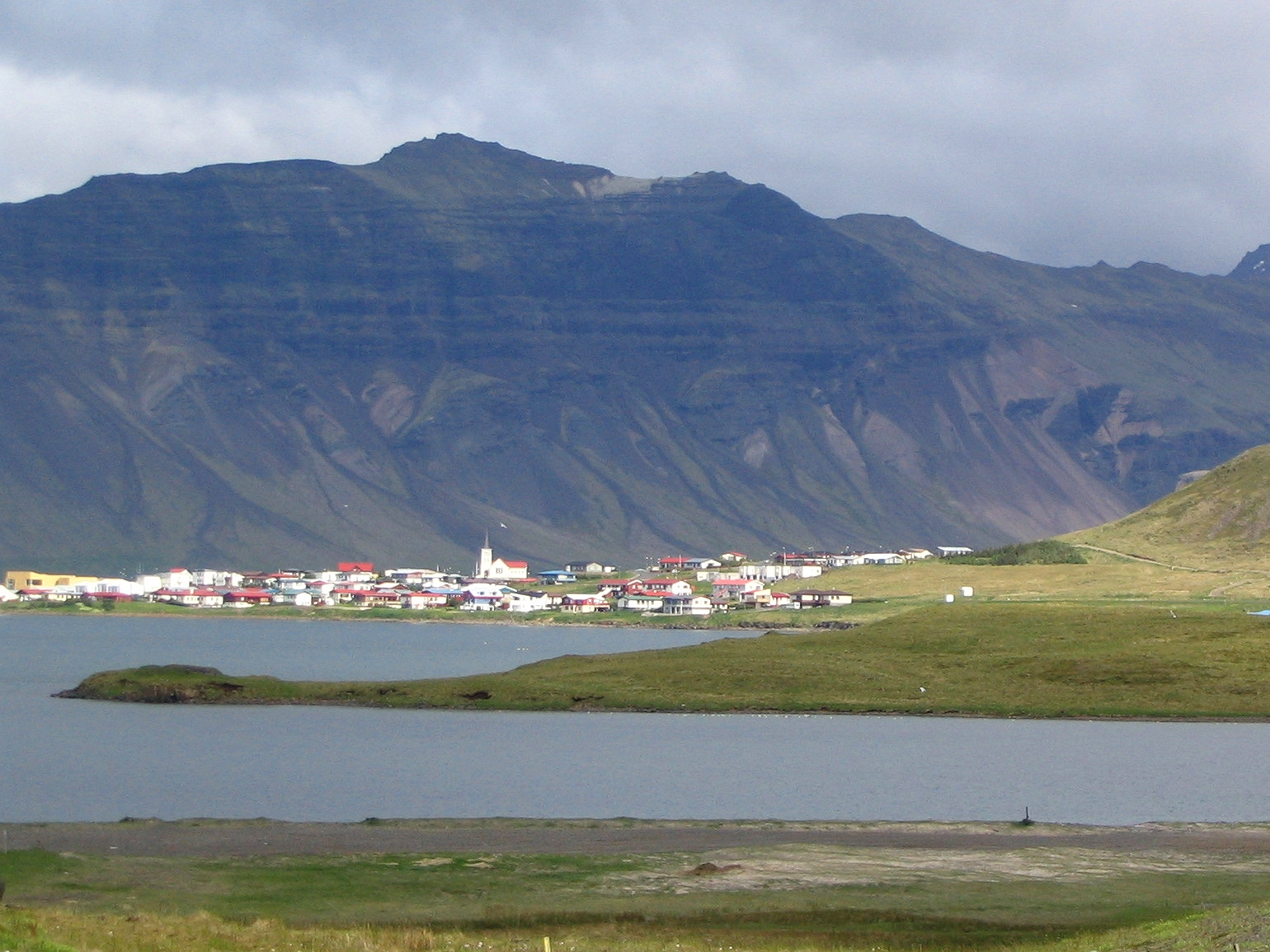 Grundarfjörður, Iceland